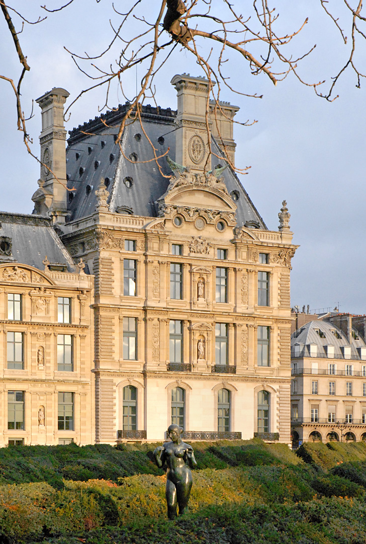 Pavillon de Marsan, Palais du Louvre